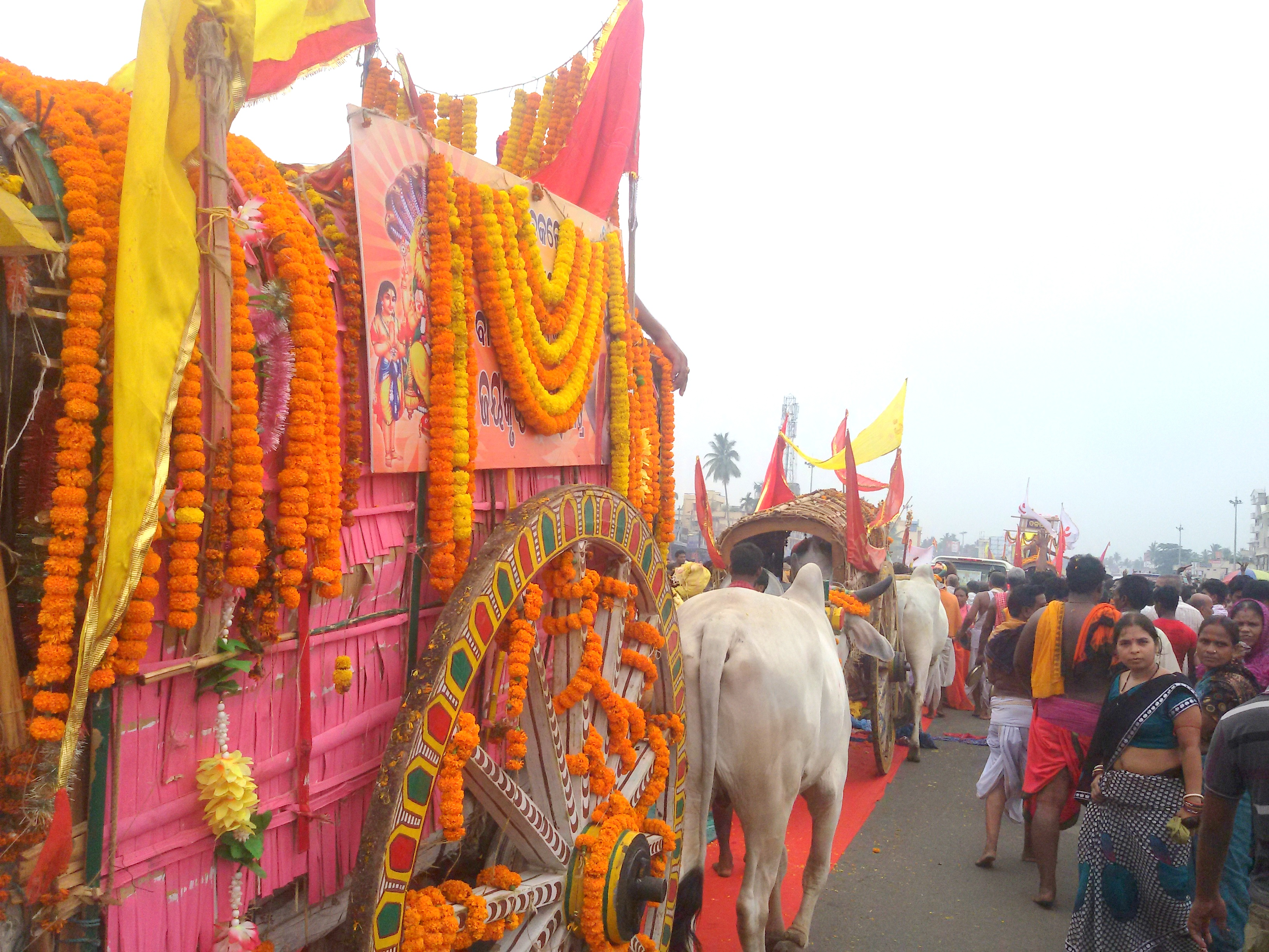 Nabakalebar 2015 @ Grand Road on its journey Jagannath Mahadaru.